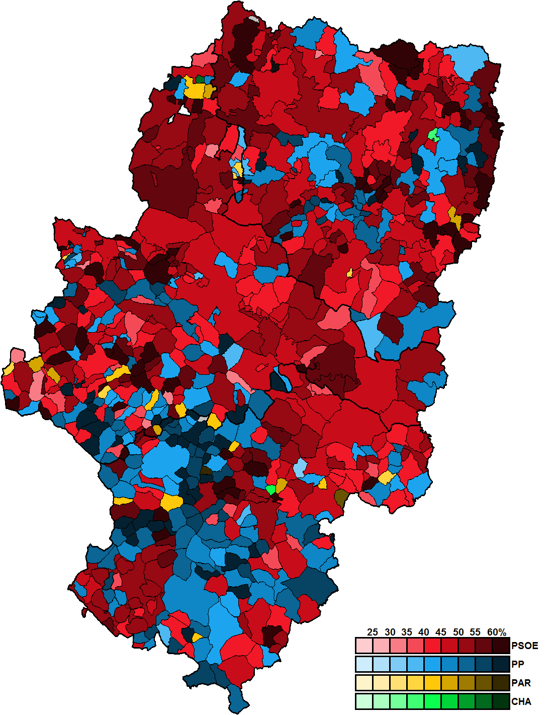 Most-voted party in Aragon municipalities, showing vote share obtained, in the Spanish general election, 2008.